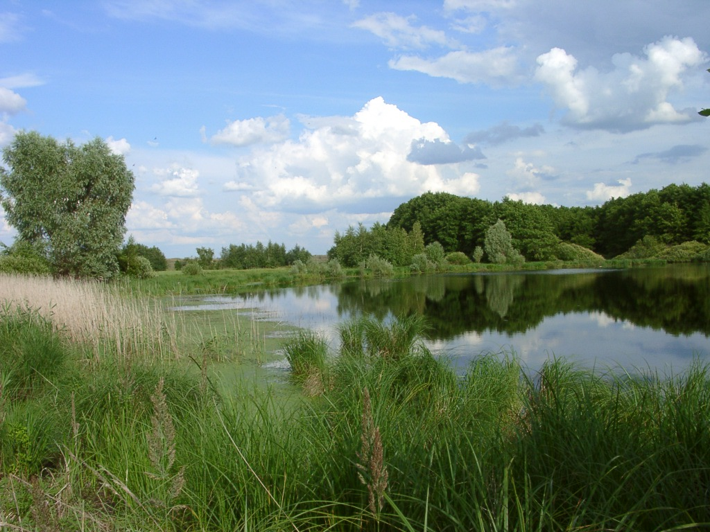 Nature Park Nizhnehopersk. Volgograd Region.